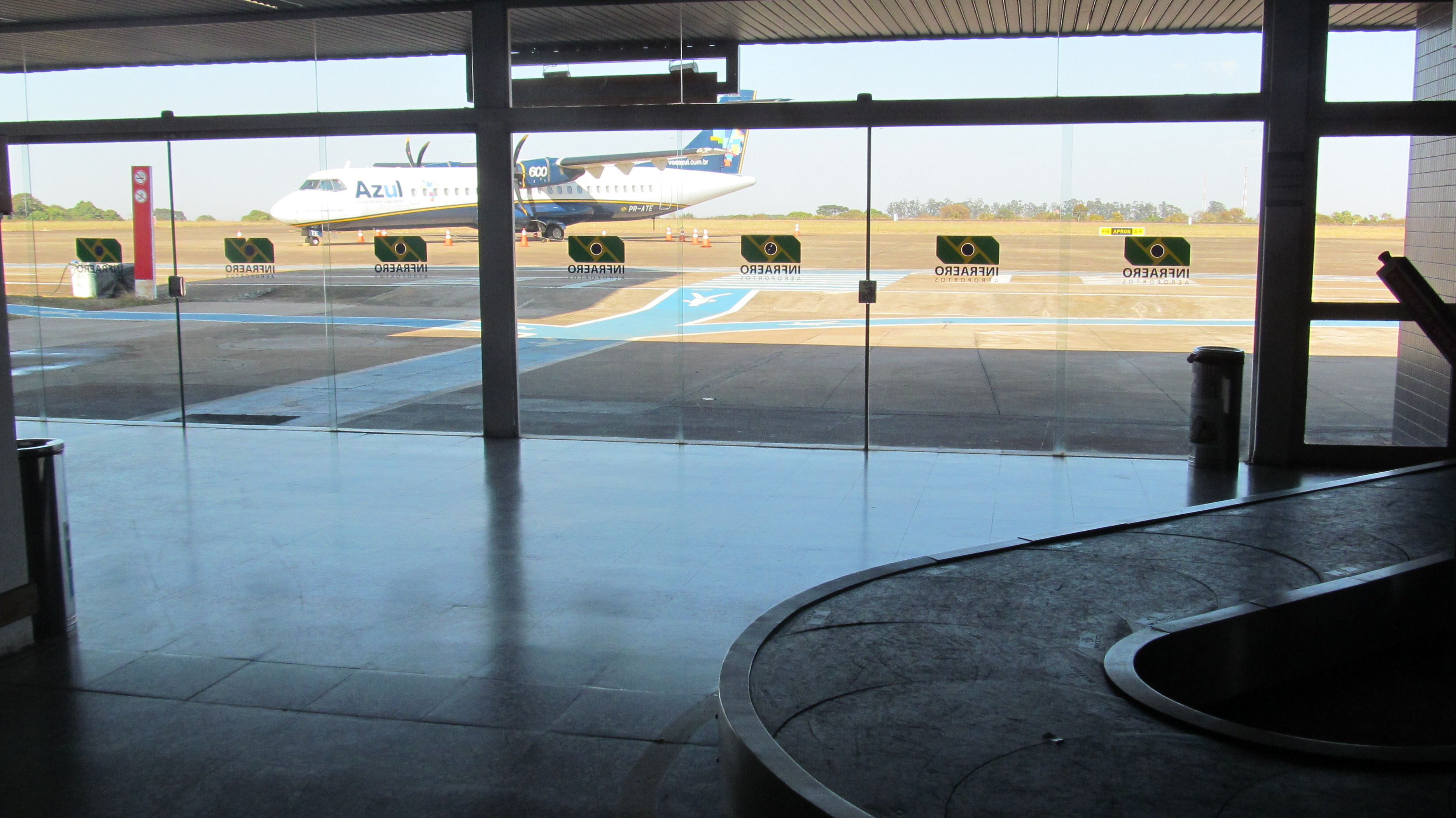 Uberaba Airport (UBA) arrival lounge, Minas Gerais, Brazil